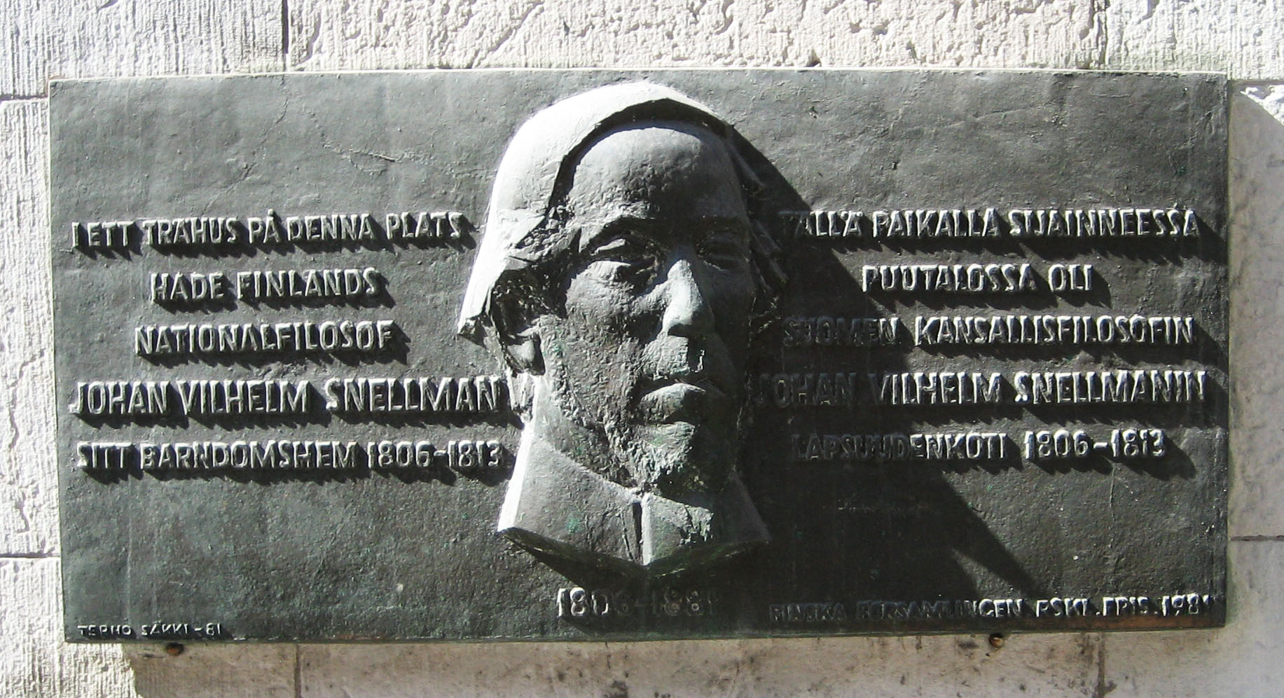 Plate on Tjärhovsgatan 5 in Stockholm, finnish philosopher and author Johan Vilhelm Snellmans (1806-1881) birthplace.